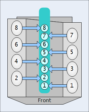 This image shows the cylinder numbering scheme that a lot of big auto manufacturers use on their V-type engines. It drew it myself in Visio.